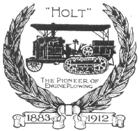 Logo for the Holt Manufacturing Company of Stockton, California in 1912 (the company's first logo as it appeared on a 25th anniversary sales brochure).